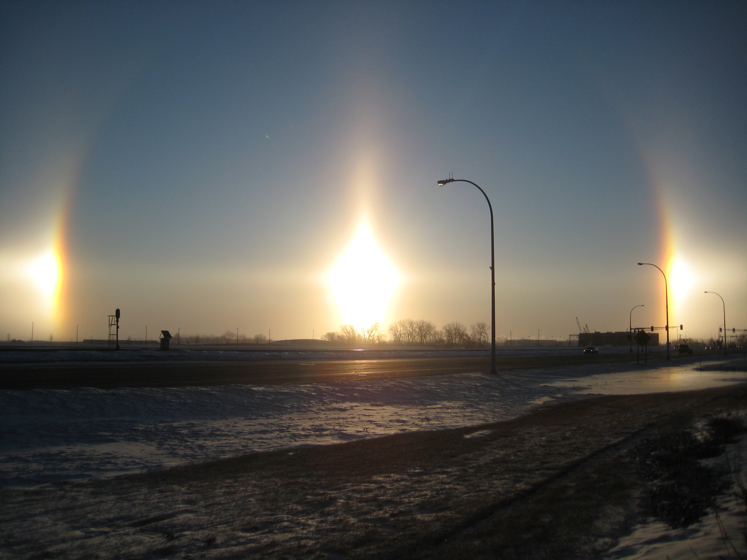 Sundogs in Fargo, North Dakota. Taken February 18th, 2009.